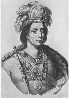 Moctezuma from the book Costumes civils, militaires et réligieux du Mexique (Belgium, 1828)